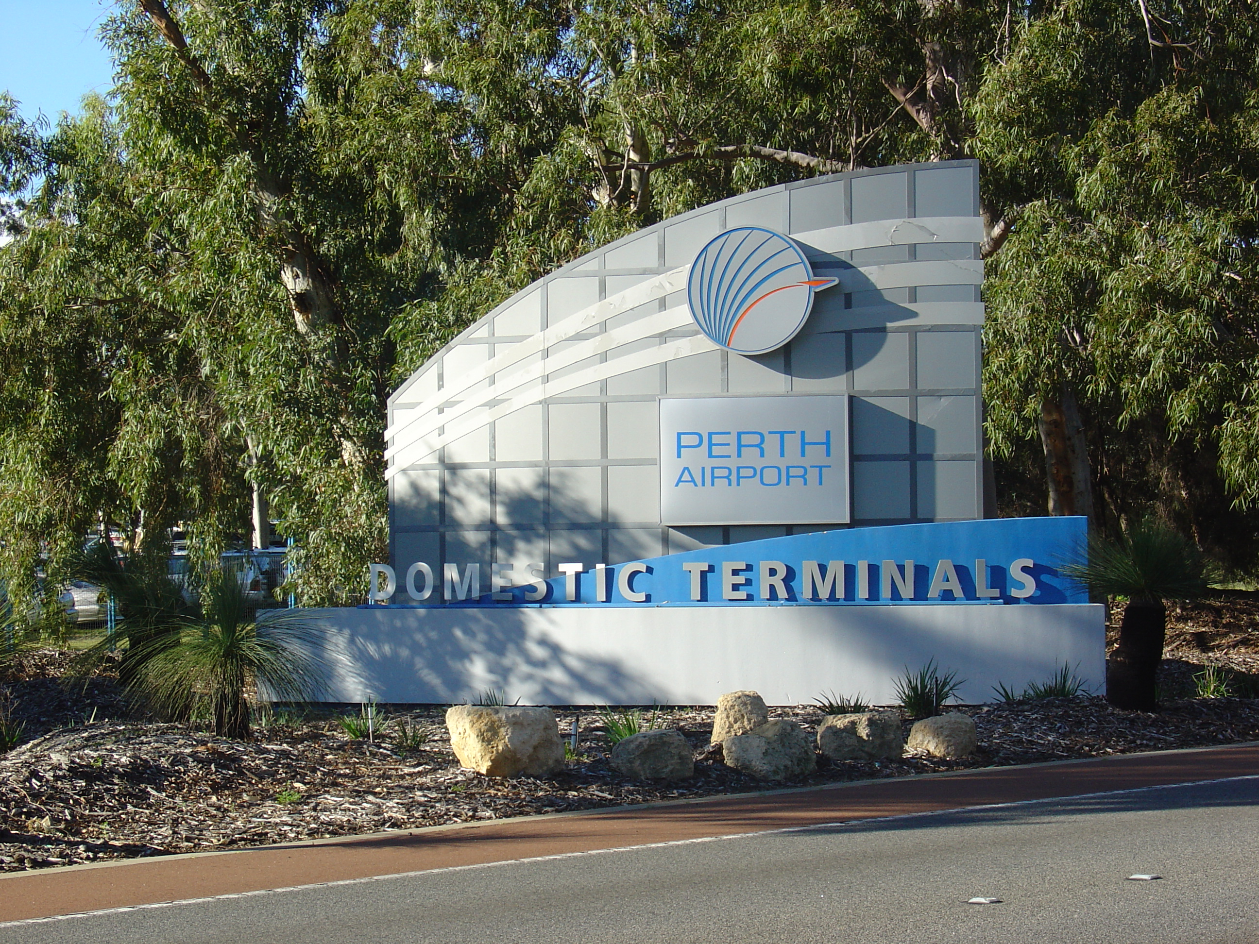 Entry signage to Perth Airport domestic terminal.